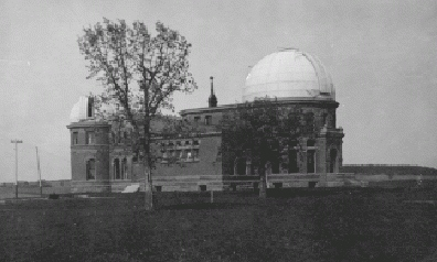 Goodsell Observatory, Carleton College, Northfield, Minnesota, 1895.